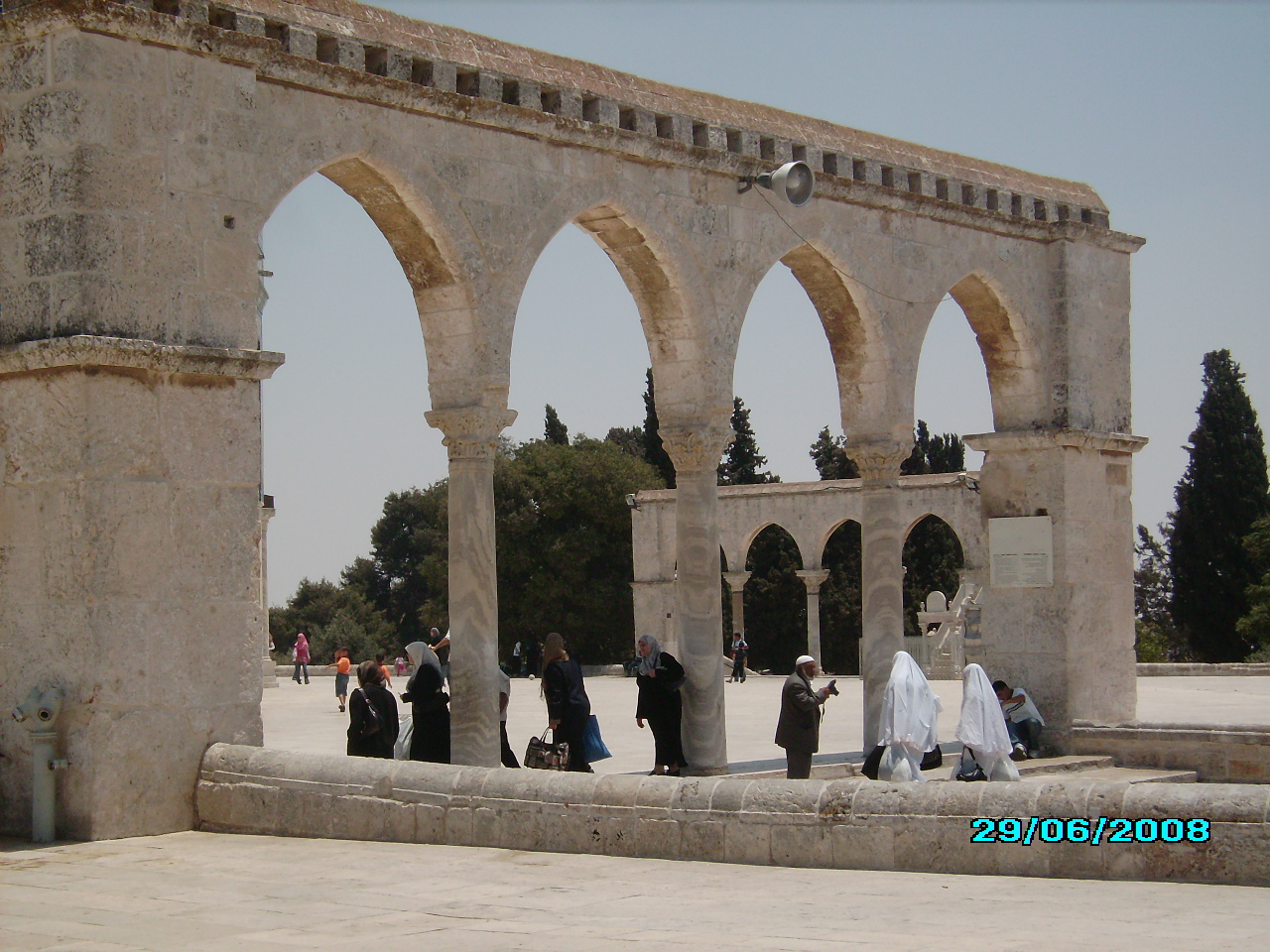 Al-Aqsa Mosque